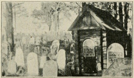 Jewish cemetery in Horodishscha